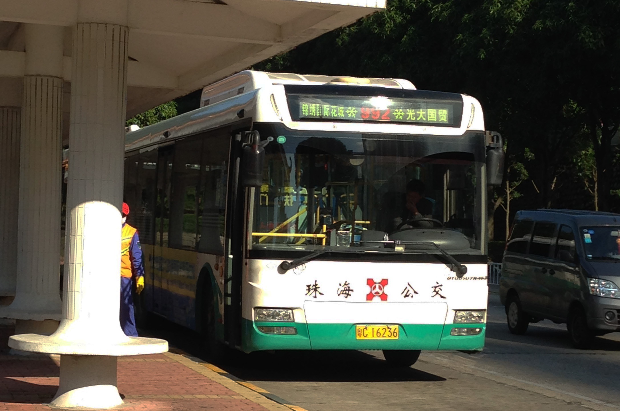 Zhuhai Bus Route 992